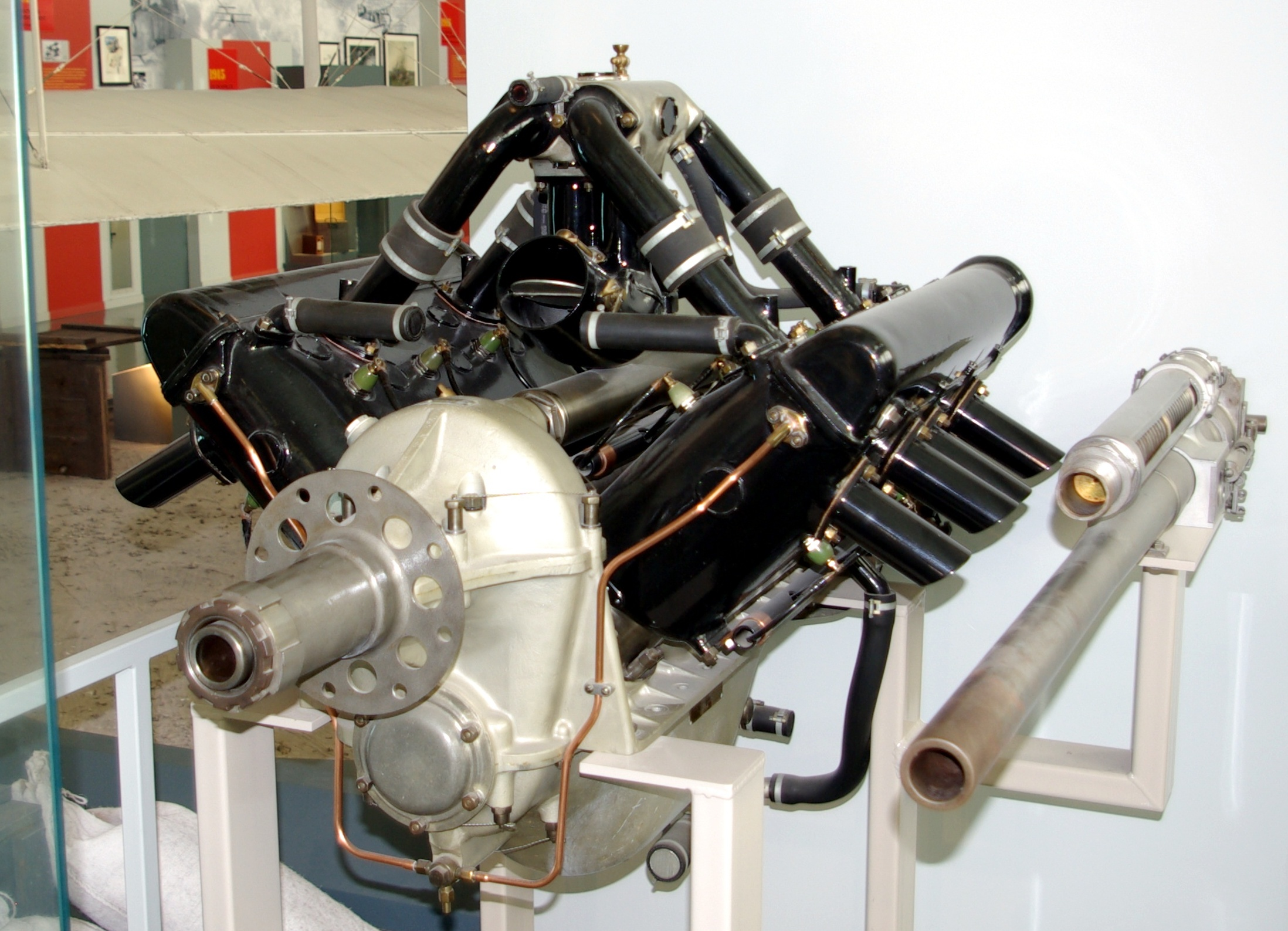 A V8 aircraft engine Hispano-Suiza 8C exhibited at the Air & Space Museum at Le Bourget, France.